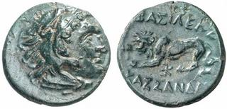 Greek coin of Cassander, a King of Macedon. Greek coin depicting a lion. Inscription in Ancient Greek "ΒΑΣΙΛΕΩΣ ΚΑΣΣΑΝΔΡΟΥ", King Cassander.